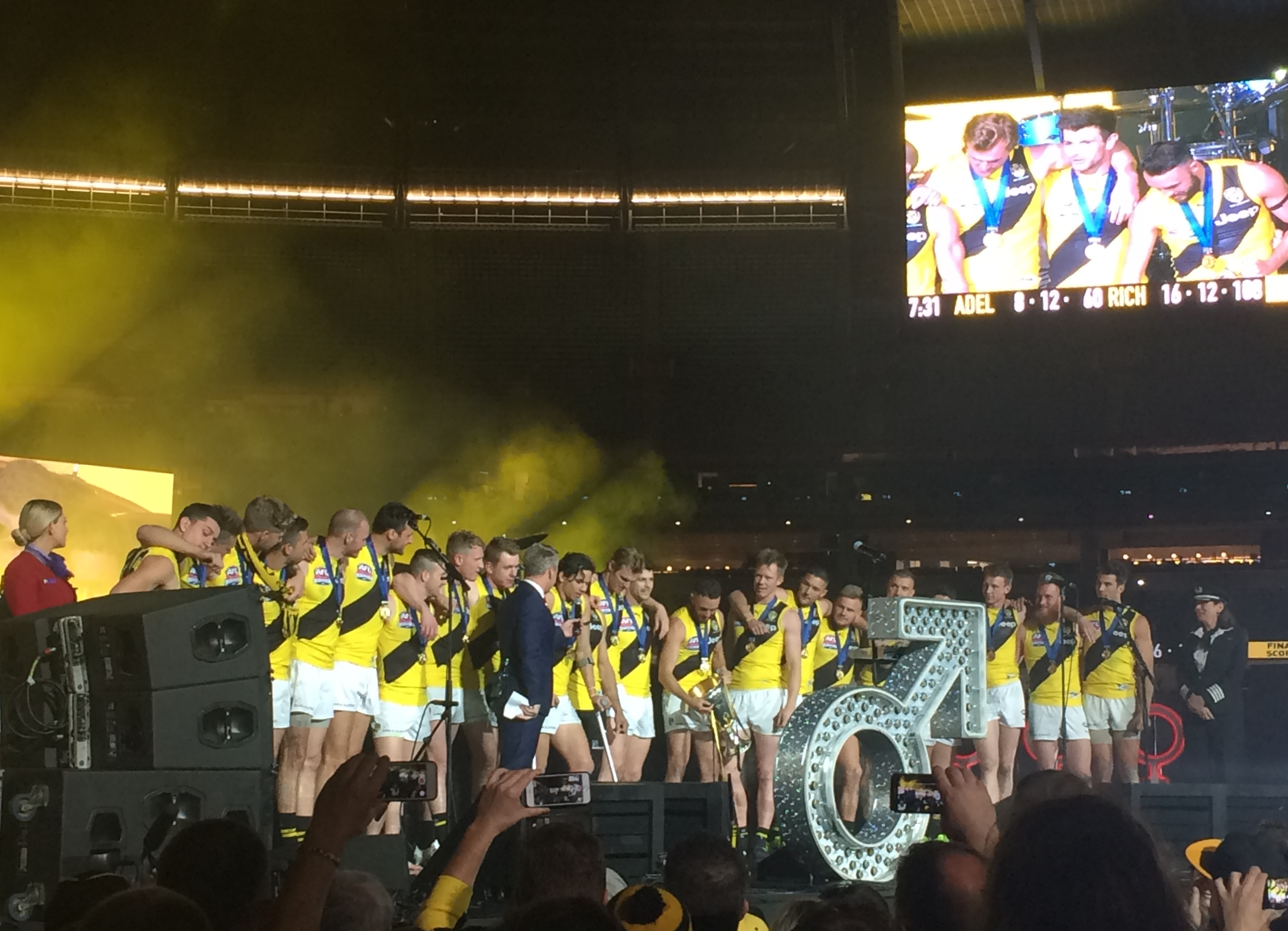 Richmond players celebrate on stage following the 2017 AFL Grand Final